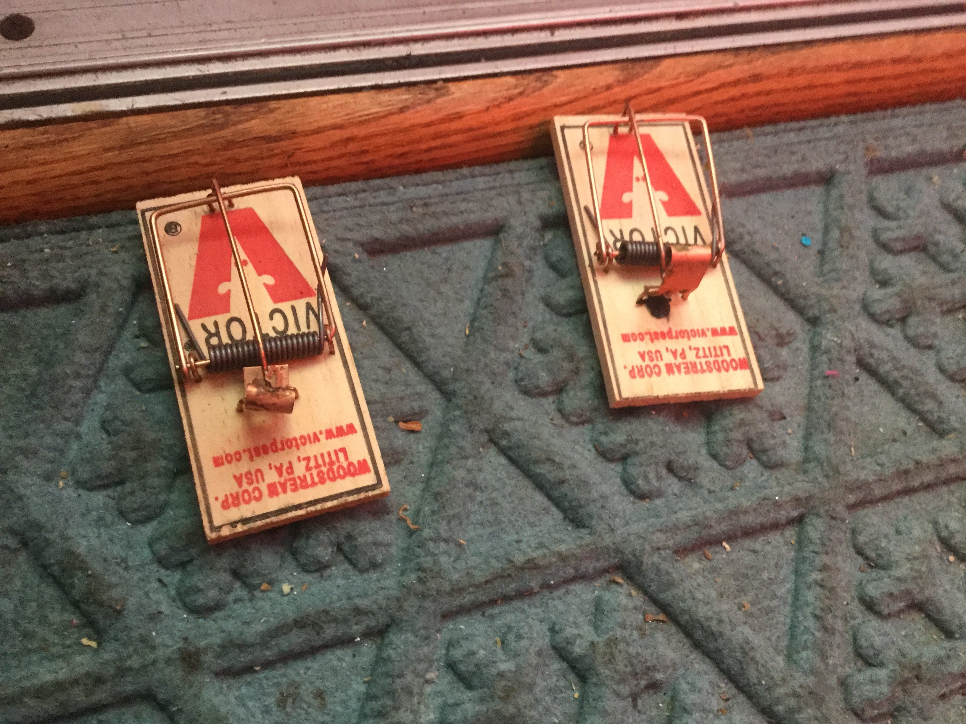 This file shows two mouse traps on a carpet